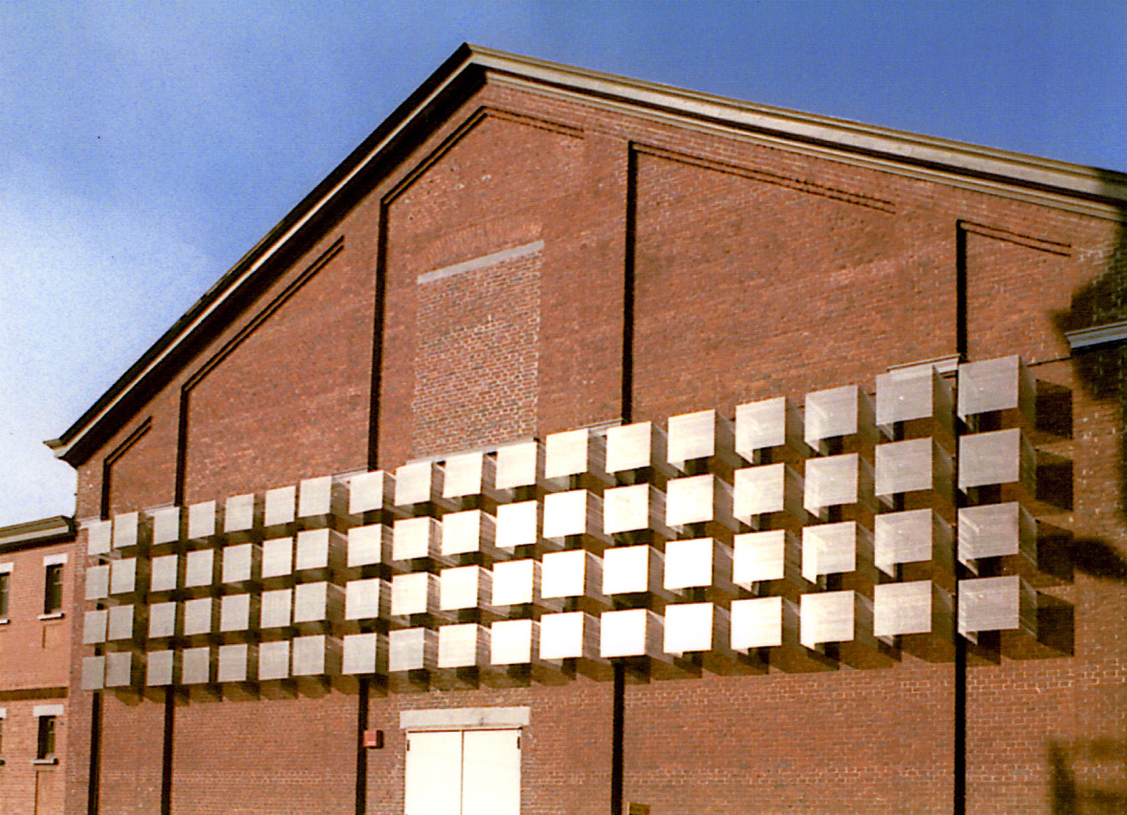 Mark Verstockt, Charleroi, Murale, 2002